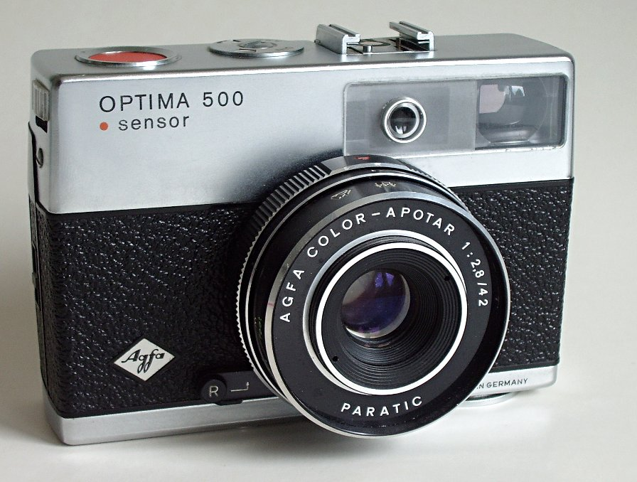 Agfa Optima 500 sensor camera. 35mm camera with automatic-exposure.